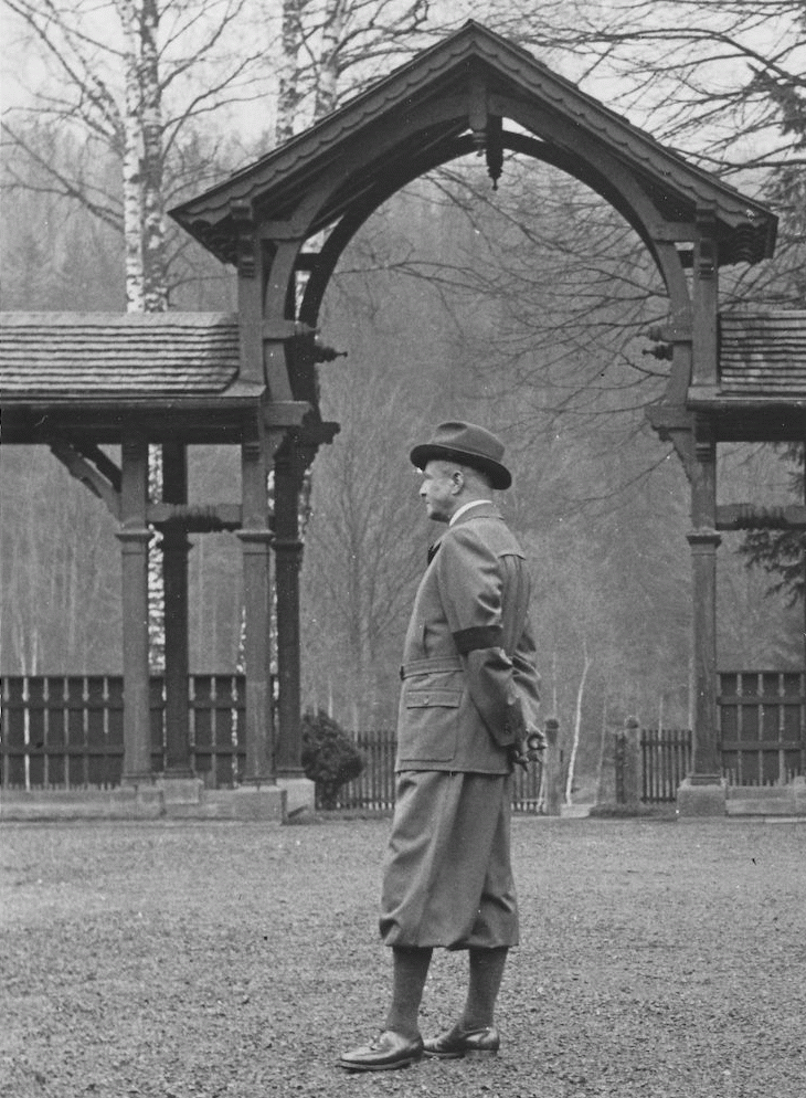 Field Marshal Walther von Brauchitsch at the "Three Tubes" hunting lodge, Protectorate of Bohemia and Moravia.